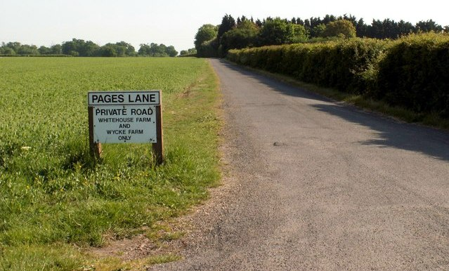 Pages Lane, Tolleshunt D'Arcy, Essex, England. The lane leads to Whitehouse Farm and Wycke Farm.